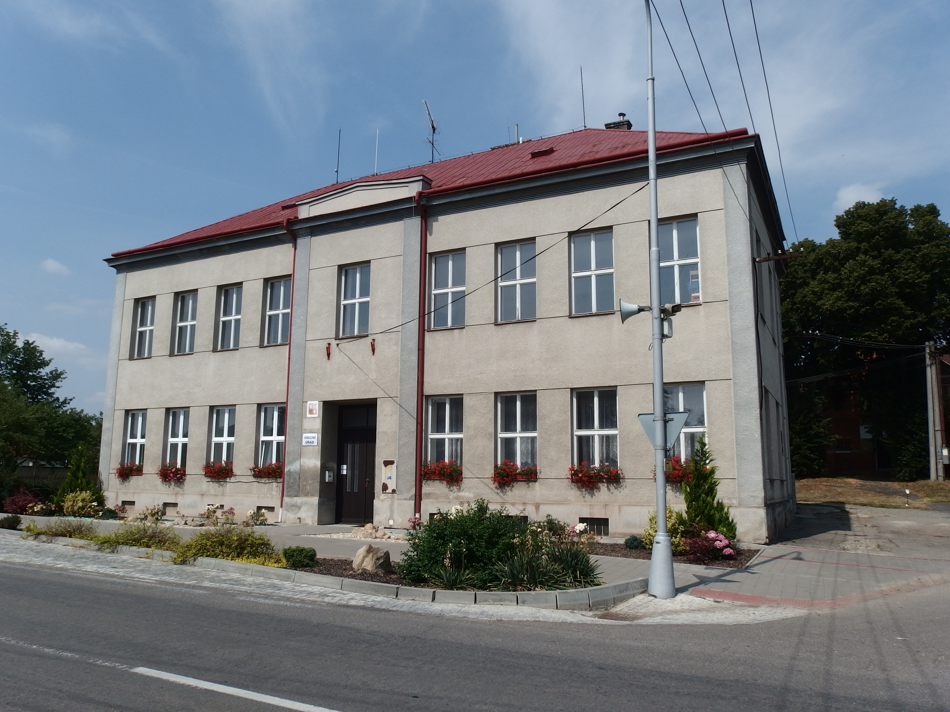 Šelešovice, Kroměříž District, Czech Republic.